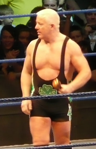 A picture taken by myself at a WWE house show in Belfast, Northern Ireland on the 5th December 2007.